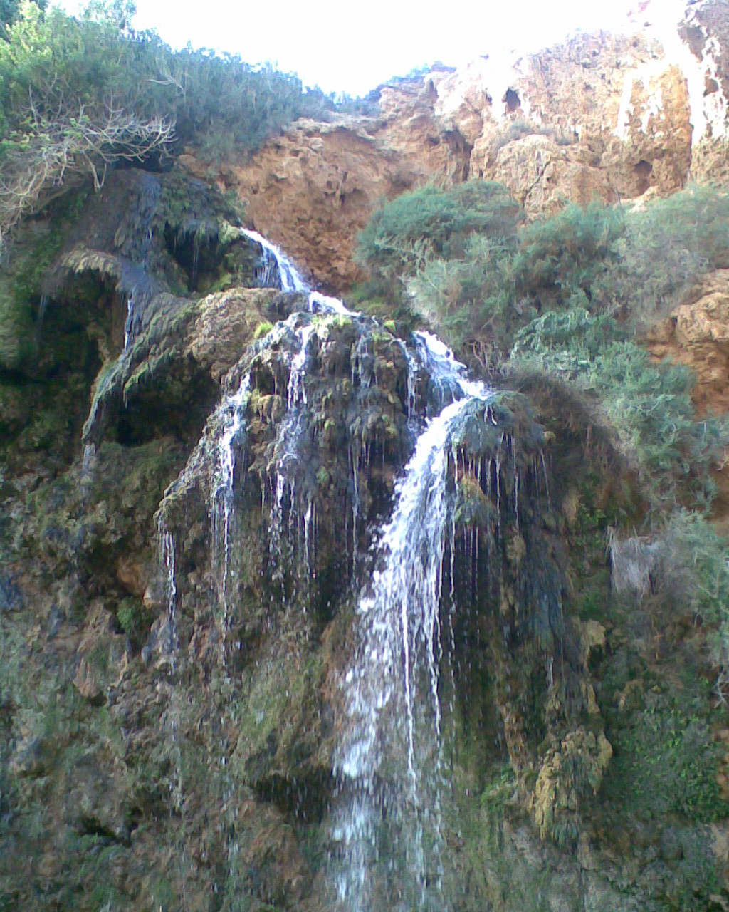 Derna waterfalls, Libya.